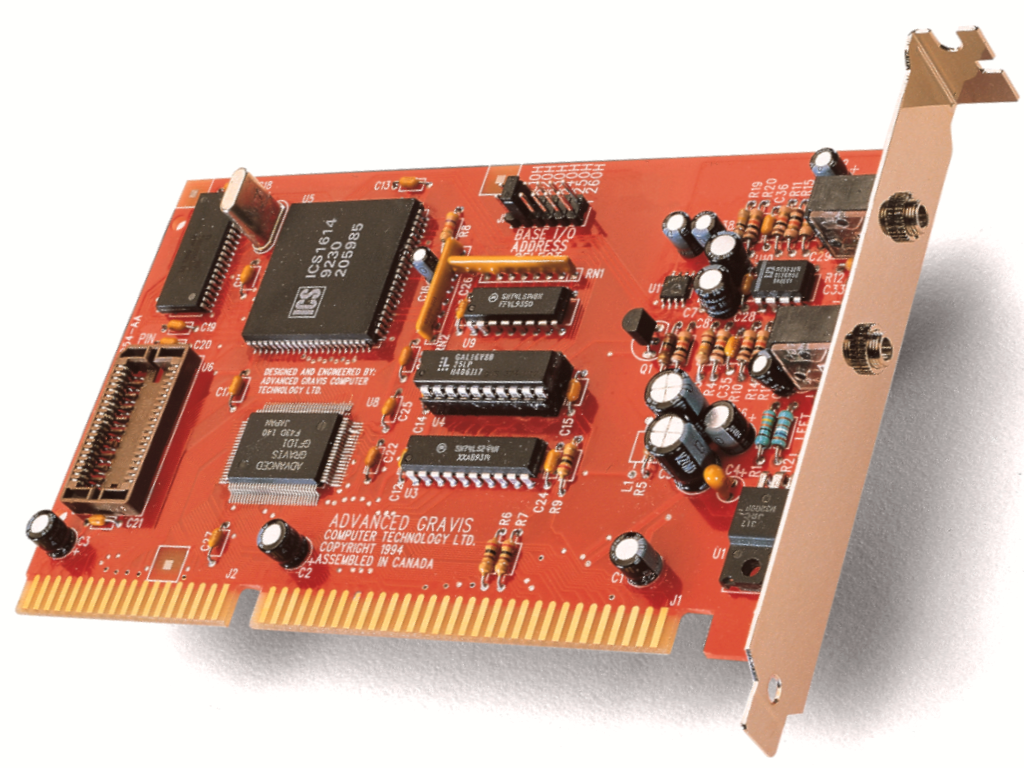 Front of the sound card Gravis Ultrasound ACE v .1.0, Copyright (C) 1993,1994,1995 by Advanced Gravis Computer Technology Ltd.